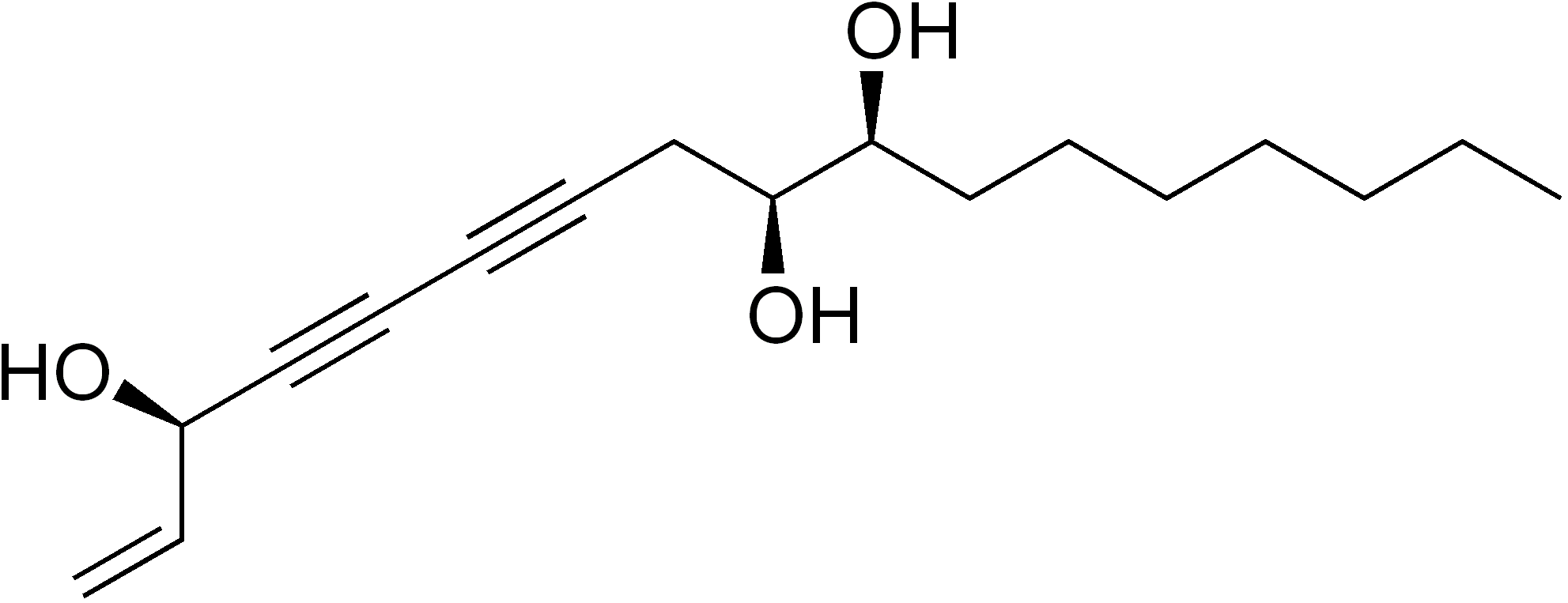 chemical structure of panaxytriol